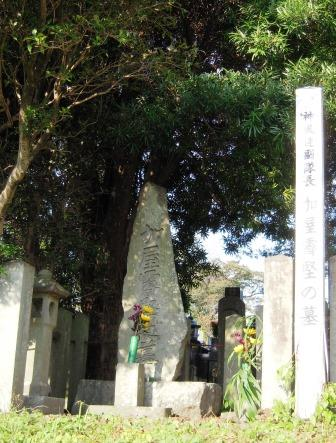 Grave of Kaya Harukata at Omine Cemetery in Kumamoto City, Japan